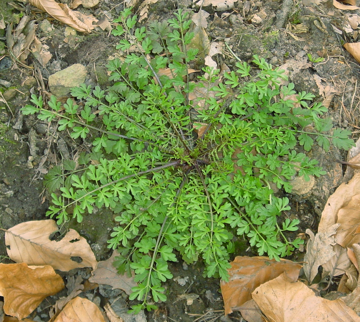 ground leaves of Cardamine impatiens